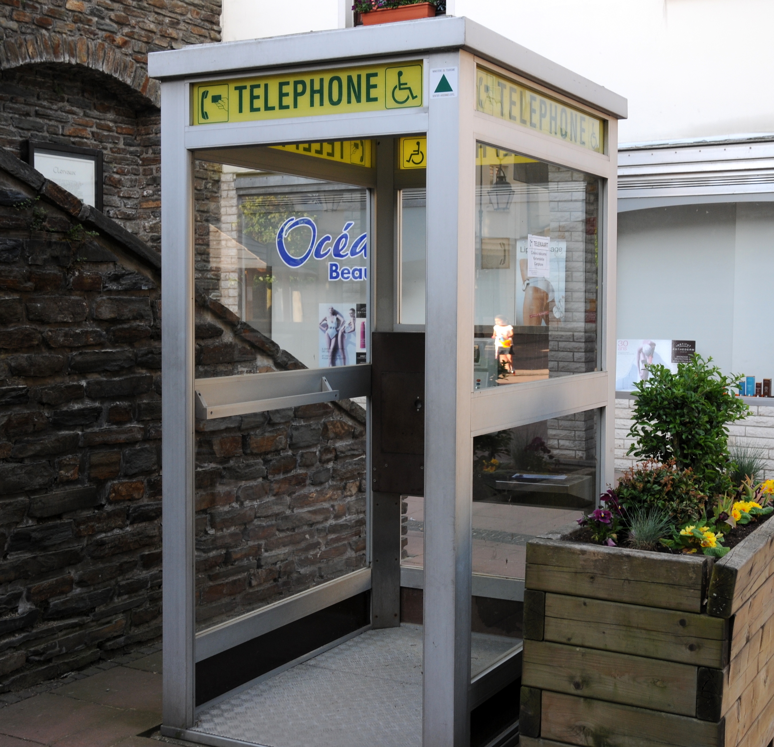 Phone booth accessible with wheelchair in Clervaux